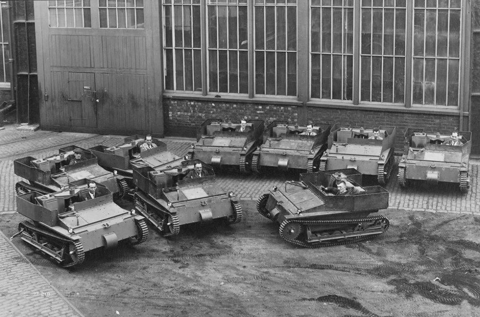 Carden-Loyd Carriers at the Elswick Works, Newcastle upon Tyne, c1930 (TWAM ref 1027/9). ‘Workshop of the World’ is a phrase often used to describe Britain’s manufacturing dominance during the Nineteenth Century. It’s also a very apt description for the Elswick Works and Scotswood Works of Vickers Armstrong and its predecessor companies. These great factories, situated in Newcastle along the banks of the River Tyne, employed hundreds of thousands of men and women and built a huge variety of products for customers around the globe. The Elswick Works was established by William George Armstrong (later Lord Armstrong) in 1847 to manufacture hydraulic cranes. From these relatively humble beginnings the company diversified into many fields including shipbuilding, armaments and locomotives. By 1953 the Elswick Works covered 70 acres and extended over a mile along the River Tyne. This set of images, mostly taken from our Vickers Armstrong collection, includes fascinating views of the factories at Elswick and Scotswood, the products they produced and the people that worked there. By preserving these archives we can ensure that their legacy lives on. (Copyright) We're happy for you to share this digital image within the spirit of The Commons. Please cite 'Tyne & Wear Archives & Museums' when reusing. Certain restrictions on high quality reproductions and commercial use of the original physical version apply though; if you're unsure please .